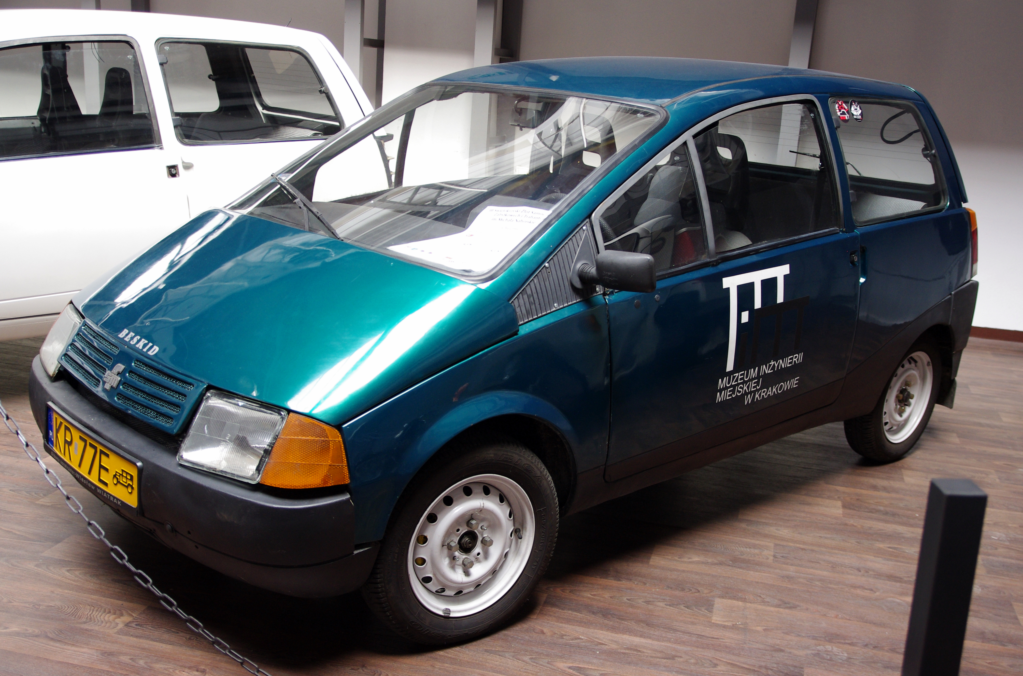 FSM Beskid 106 prototype in the The Museum of Municipal Engineering in Kraków